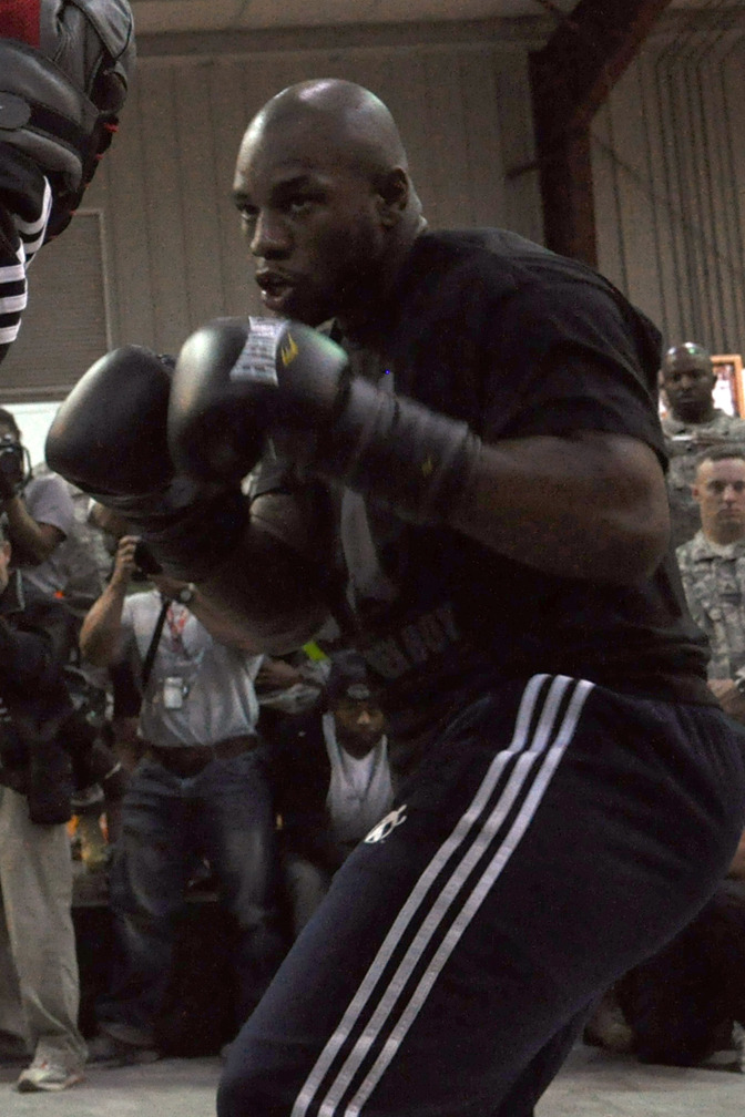 Seth Mitchell